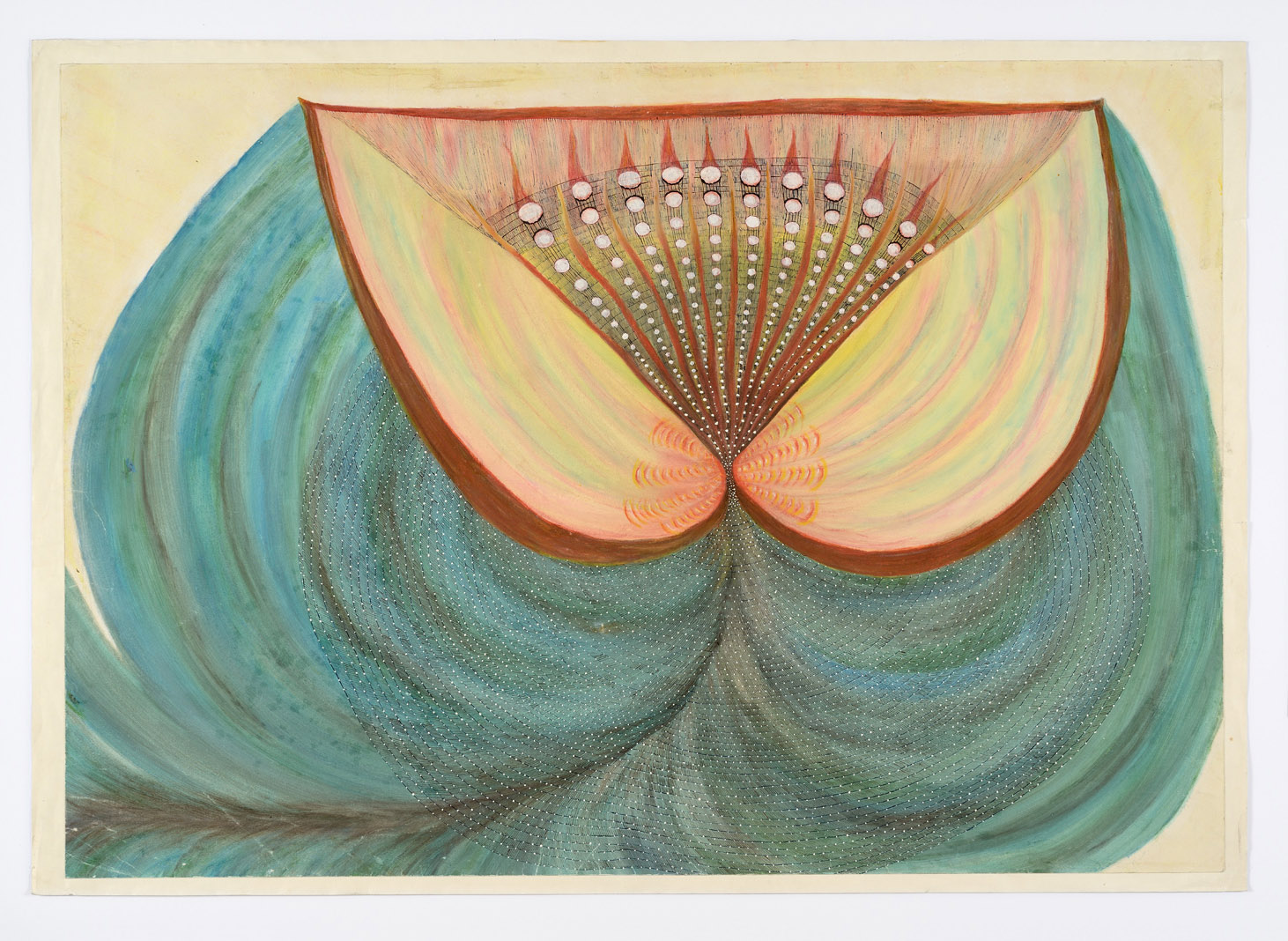 Anna Zemánková, Electric blossom, 1960s